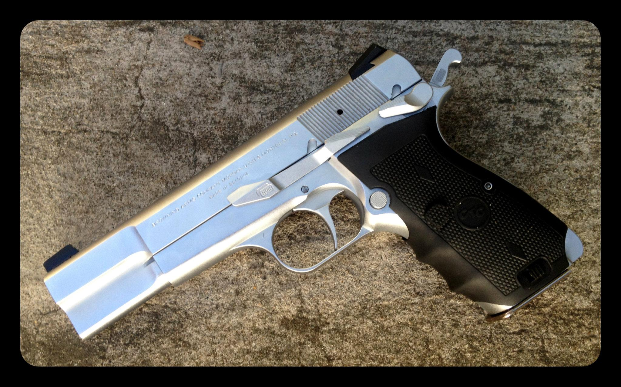 Browning Hi Power SFS Crimson Trace